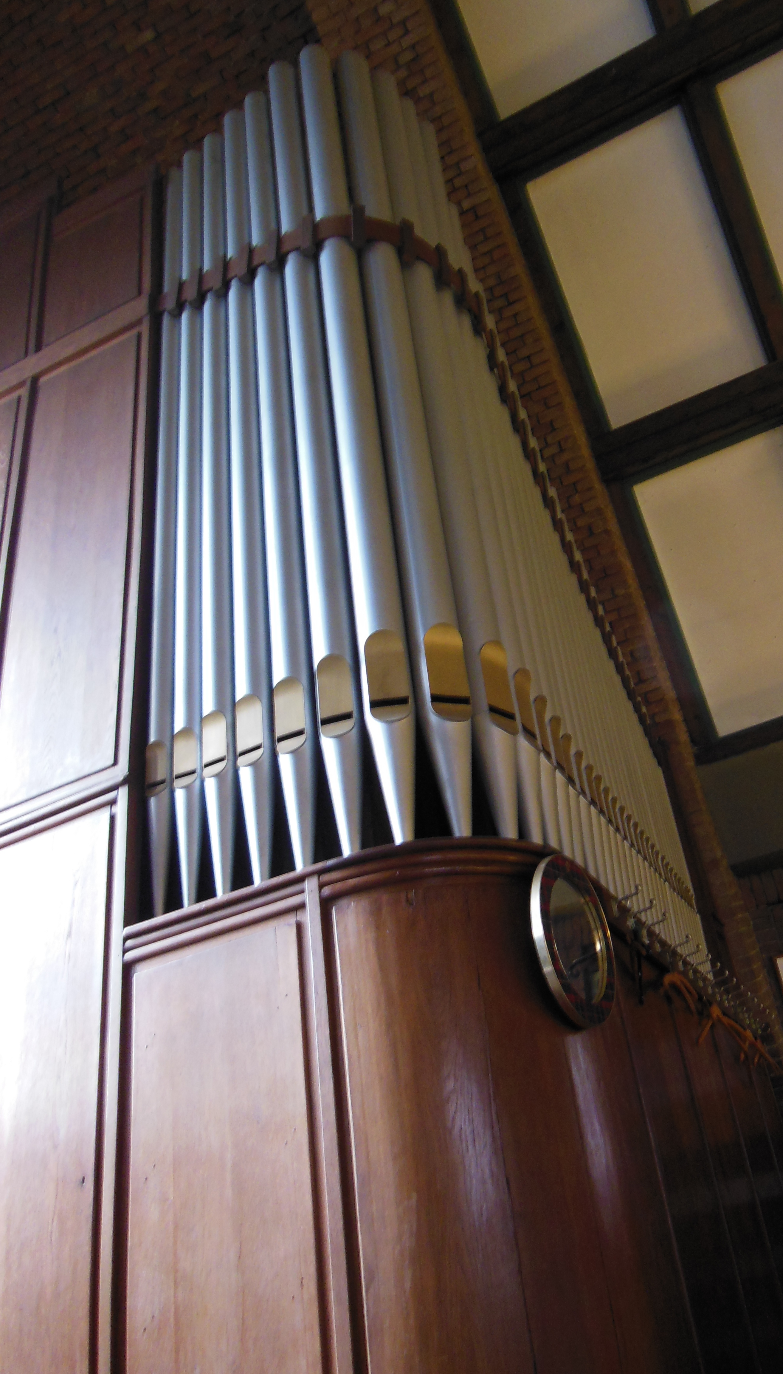 Saint Joseph church Leiden